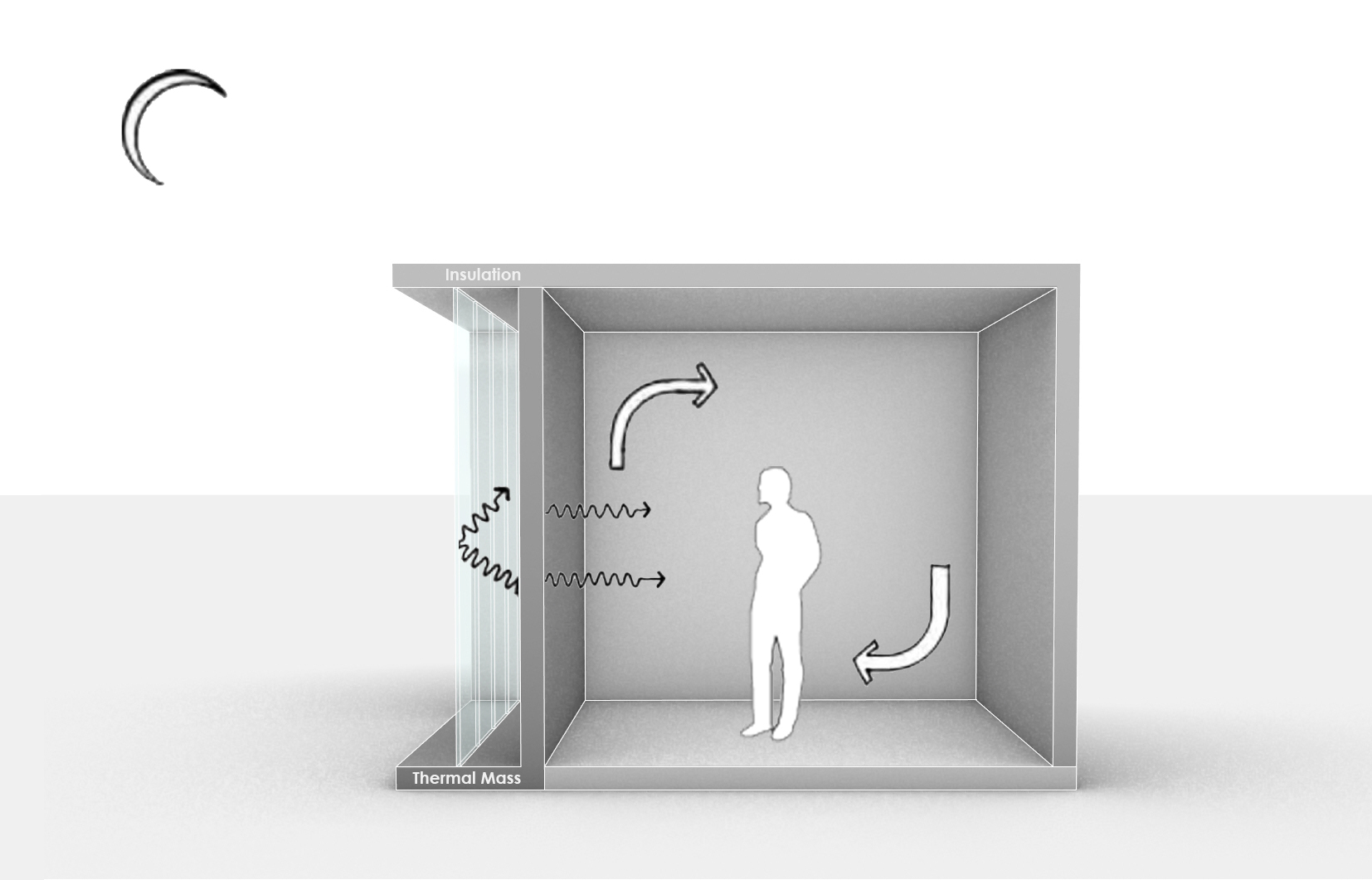 The Trombe wall working strategy during the night.